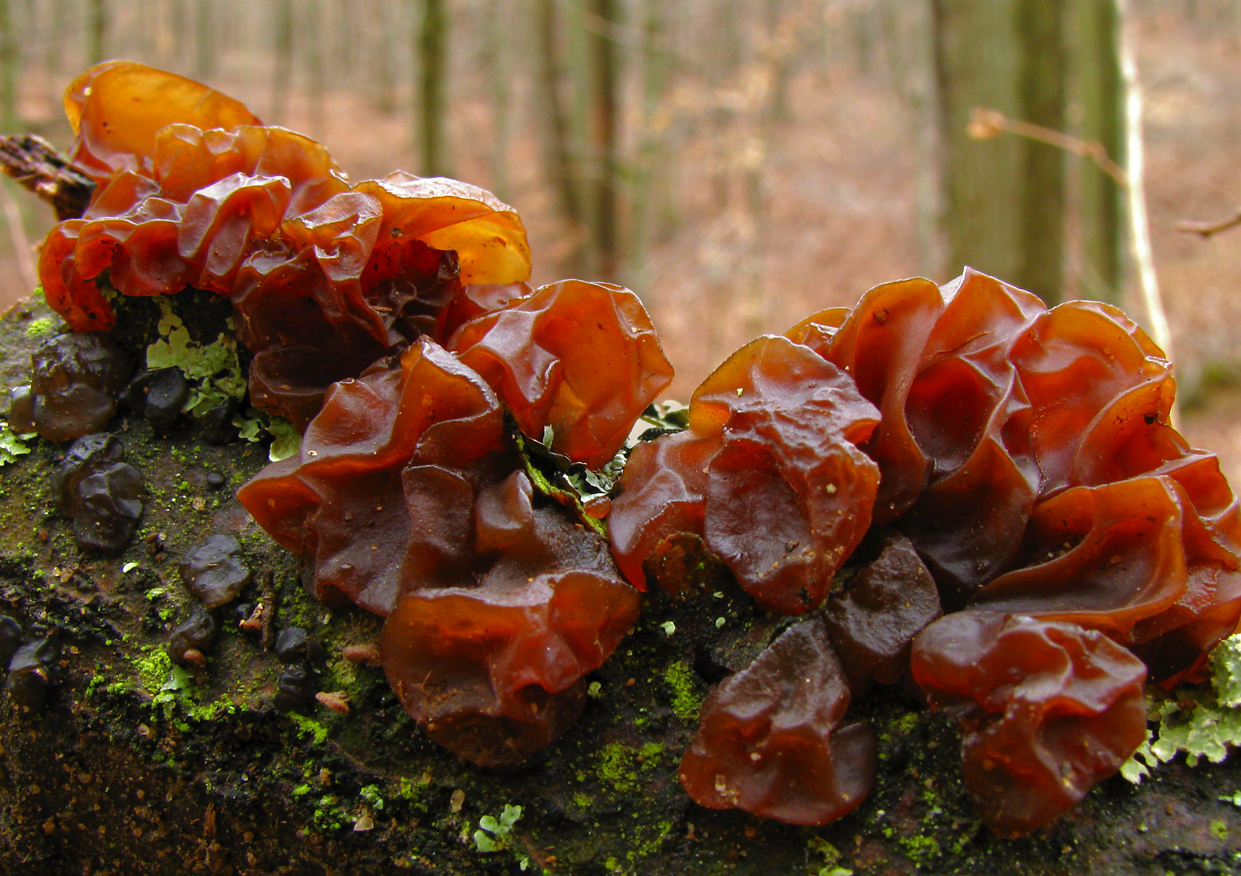 The jelly fungus Tremella foliacea Per. Photographed in Strouds Run State Park, Athens, Ohio, USA. Notes: "These were sharing a branch with Exidia glandulosa."